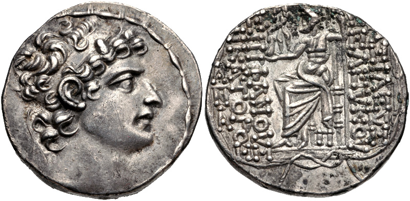 863481. Sold For $975 SELEUKID KINGS of SYRIA. Seleukos VI Epiphanes Nikator. Circa 96-94 BC. AR Tetradrachm (27mm, 15.77 g, 1h). Antioch on the Orontes mint. Struck circa 95/4 BC. Diademed head right / Zeus Nikephoros seated left, holding lotus-tipped scepter; A/(monogram)/A to outer left, Π under throne; all within wreath. SC 2415c; HGC 9, 1270. Near EF, toned.